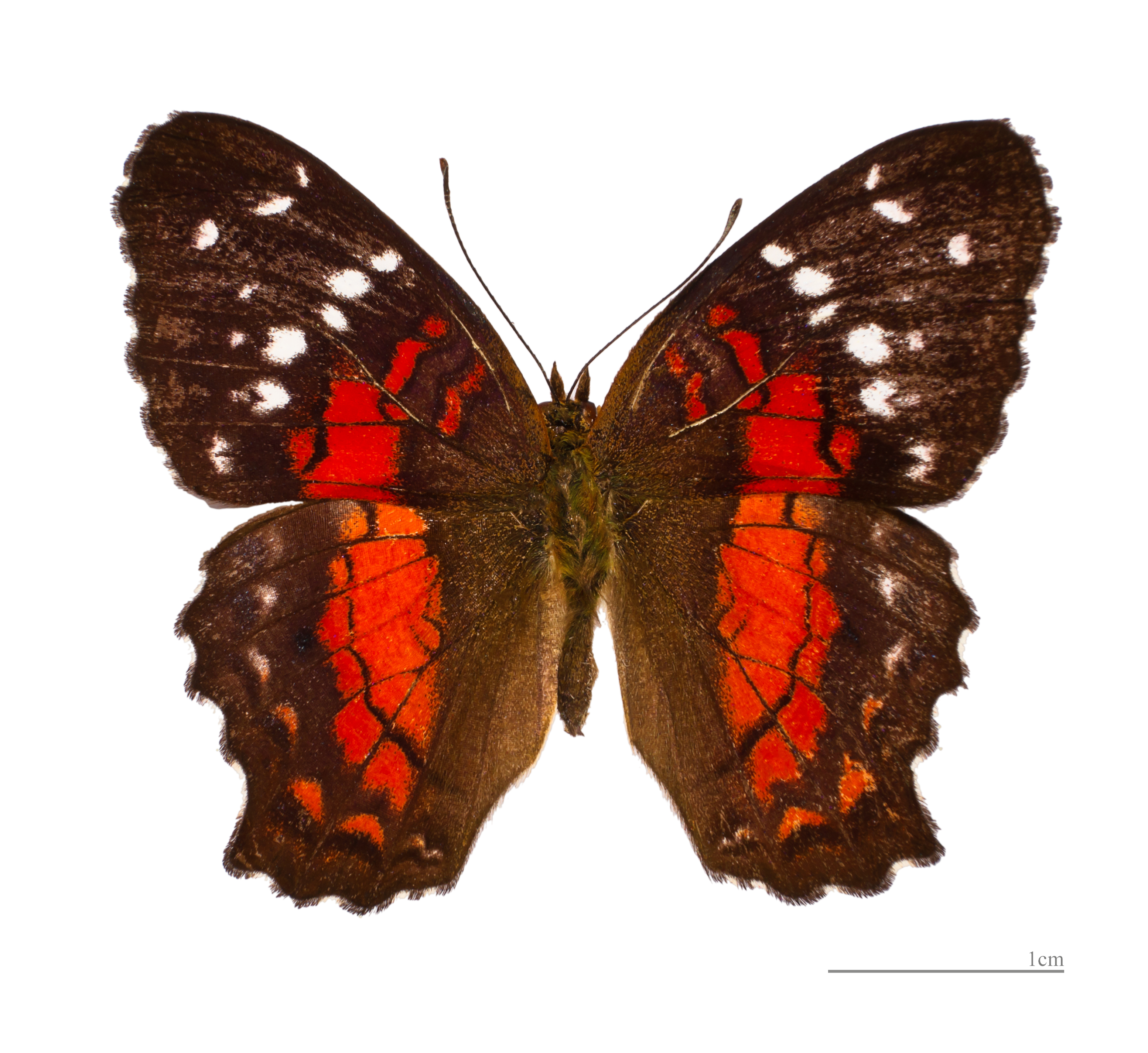 ♂ - Dorsal side Locality : Kaw Road, Waterfalls Fourgassié. French Guiana.